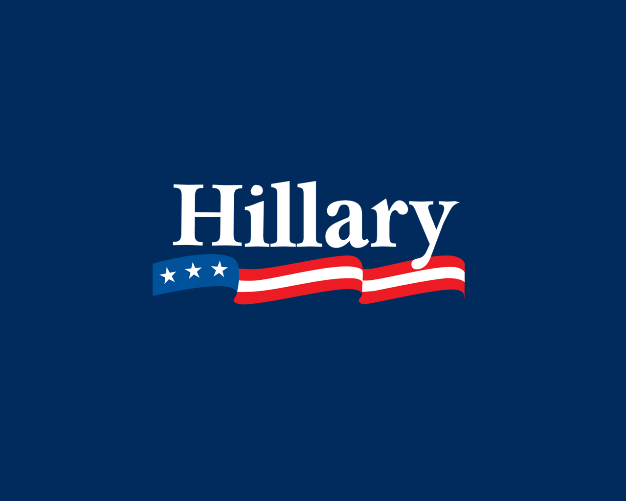 Hillary Clinton Senate campaign, 2006